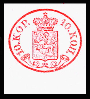 Finland first stamp, 1856, 10 k.